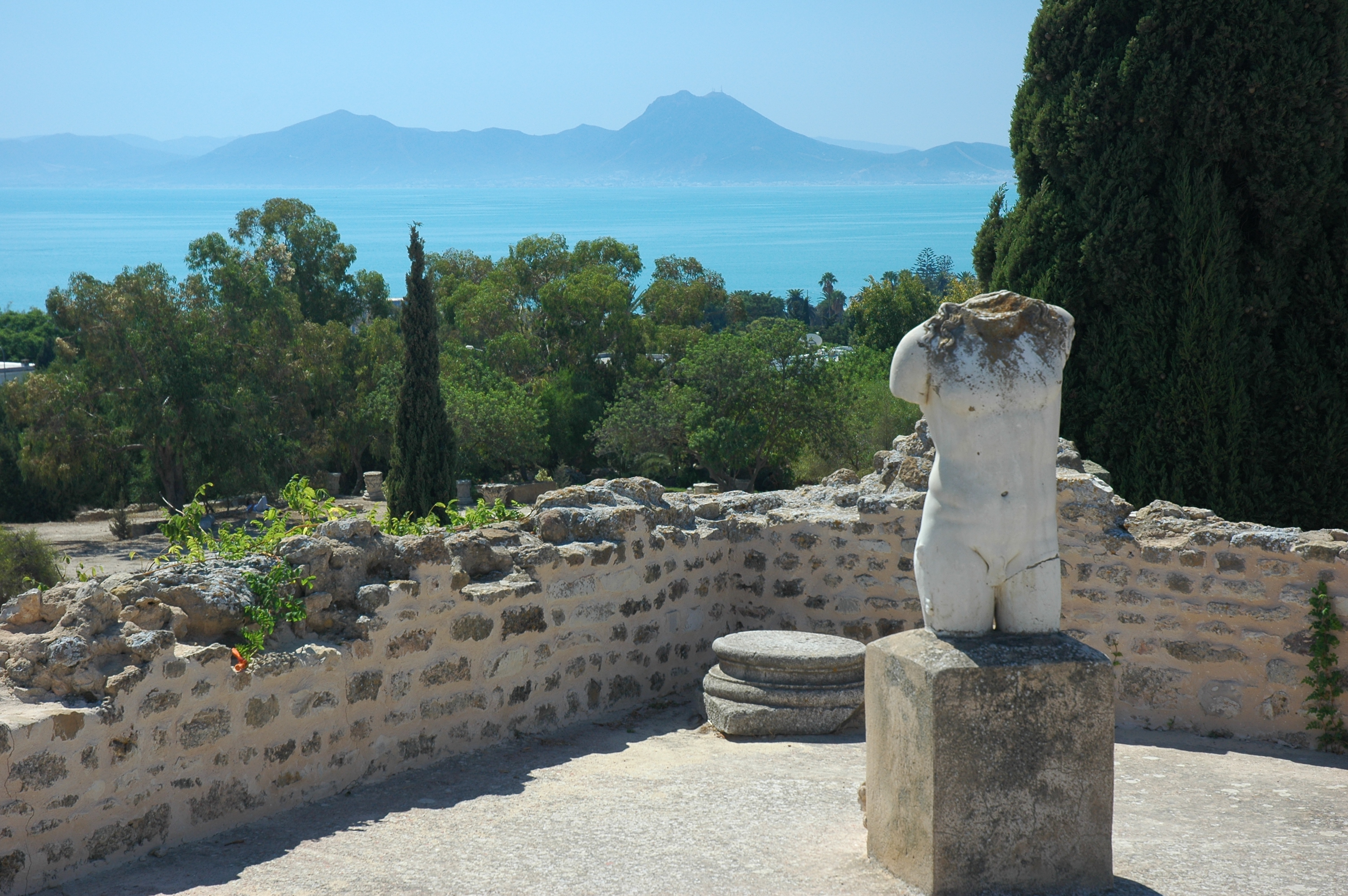 Tunisie Carthage Photographie prise par Patrick GIRAUD